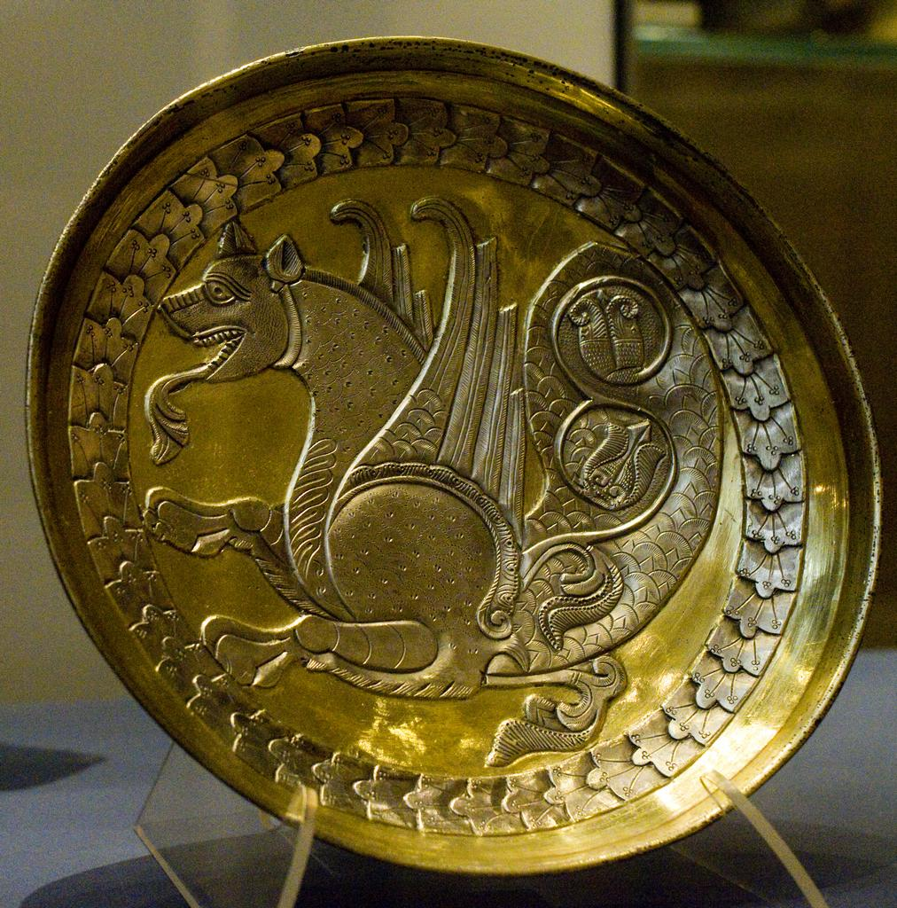 An exquisite and beautifully gilded Sassanid silver plate. The central creature within it is usually identified as the senmurw of Zoroastrian mythology which features the head of a snarling dog, the paws of a lion and the tail of a peacock. This object is today displayed in the Persian Empire collection of the British Museum.